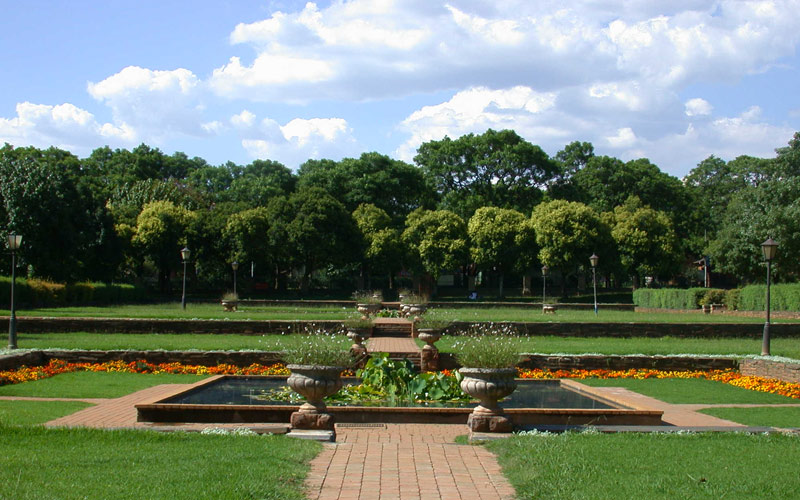 A sunken garden in Venning Park, between Pretorius and Schoeman Streets, Arcadia, Pretoria, South Africa